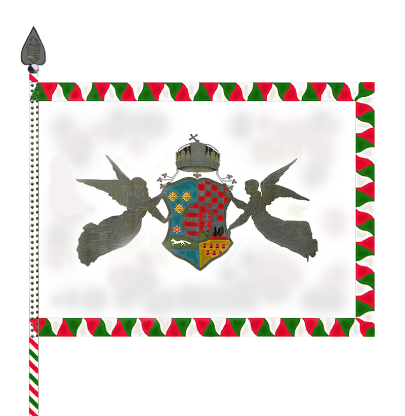 Colors of the royal Hungarian Land Forces (common to all units!)